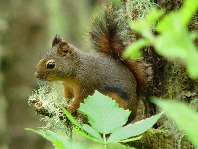 Description Tamiasciurus douglasii, Douglas Squirrel. Date July 09, 2003 Location Oregon Coast, Oregon Photographer Franco Folini